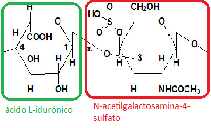 Estructure of the dermatan sulfate with the different parts.